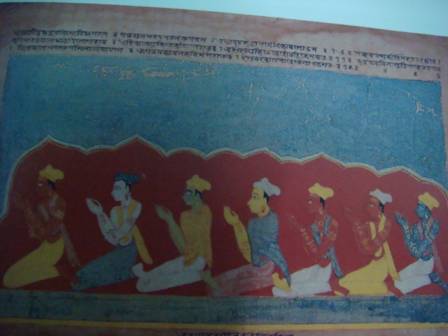 A colorful page of manuscript painting in Assam.